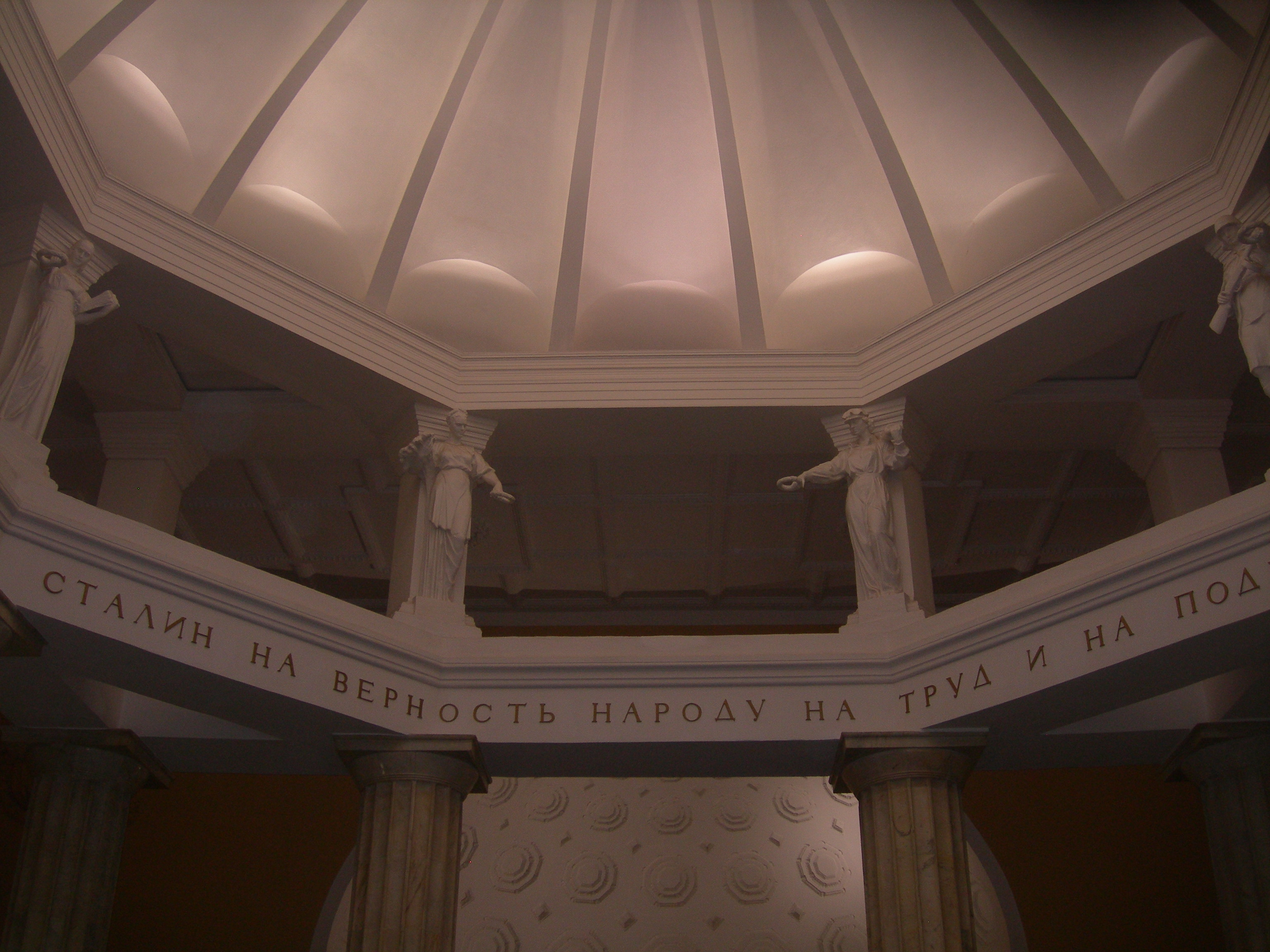 Inscription about Stalin in Moscow metro Kurskaya station: "Stalin reared us — on loyalty to the people. He inspired us to labor and to heroism."